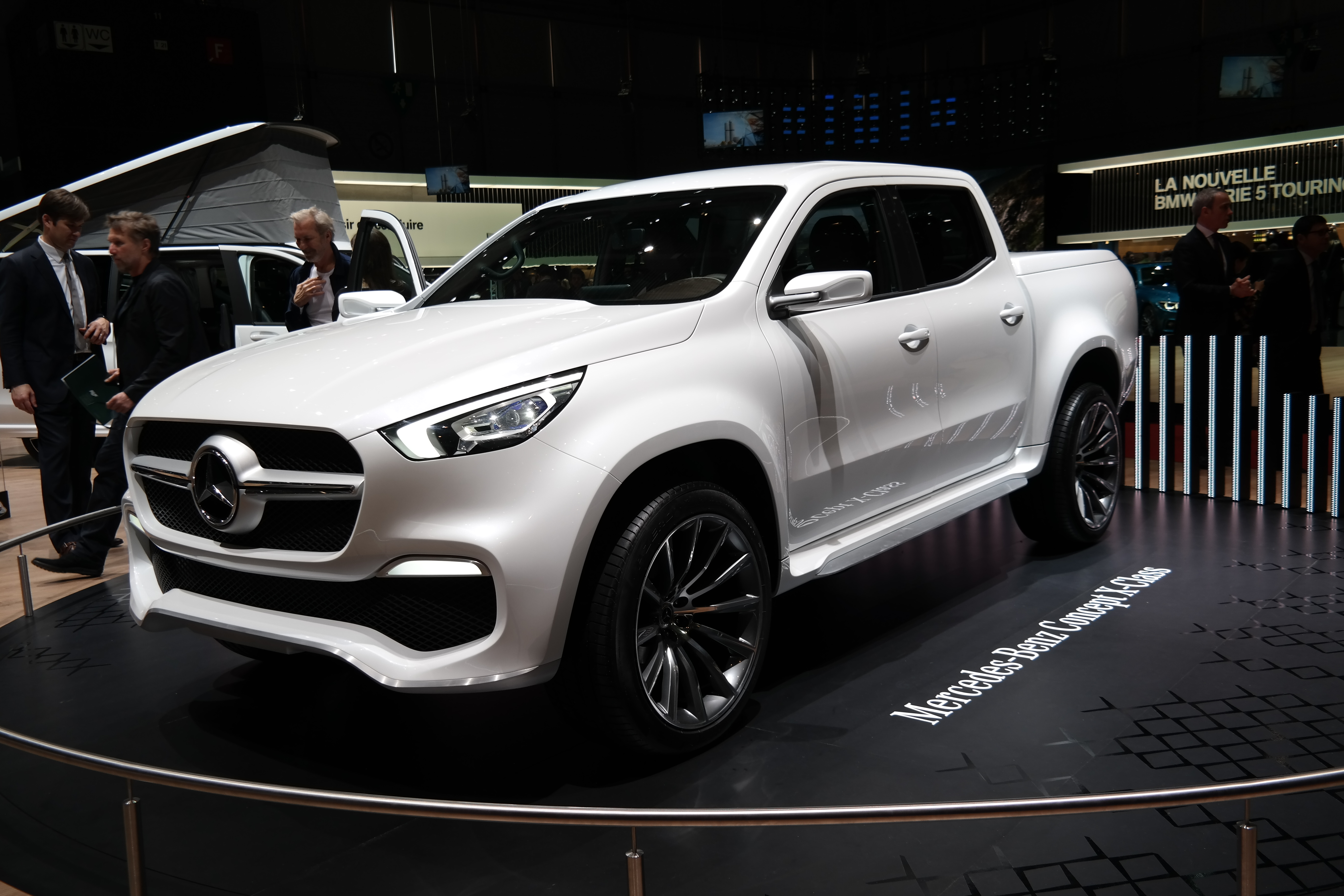 Geneva Motor Show 2017 (photo taken on the first press day)